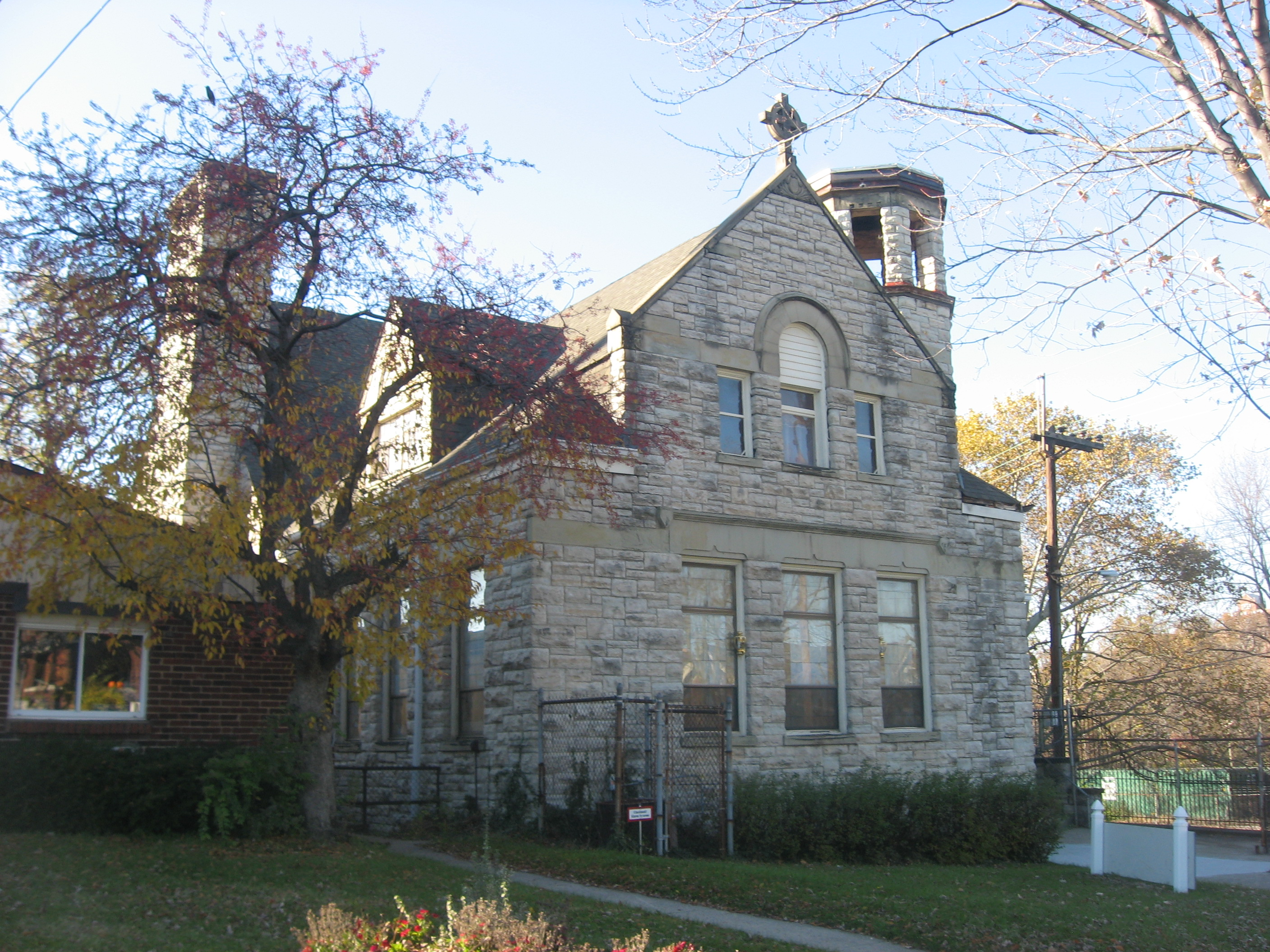 Front of the former First Universalist Church, located at 2529 Essex Place in Cincinnati, Ohio, United States. Built in 1898, it is listed on the National Register of Historic Places.